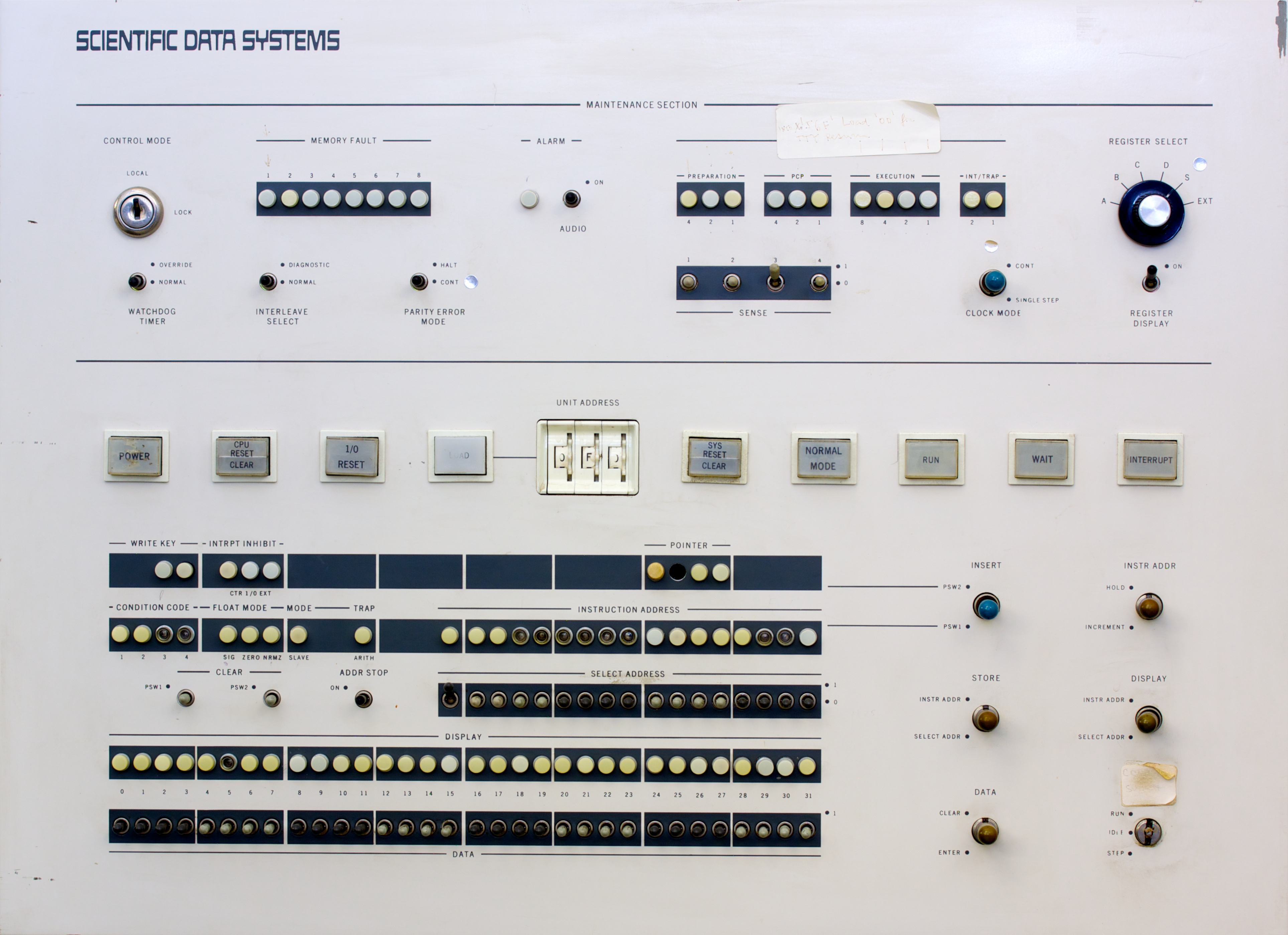 Scientific Data Systems (SDS) Sigma 5 computer front panel at the Computer History Museum, 2009.